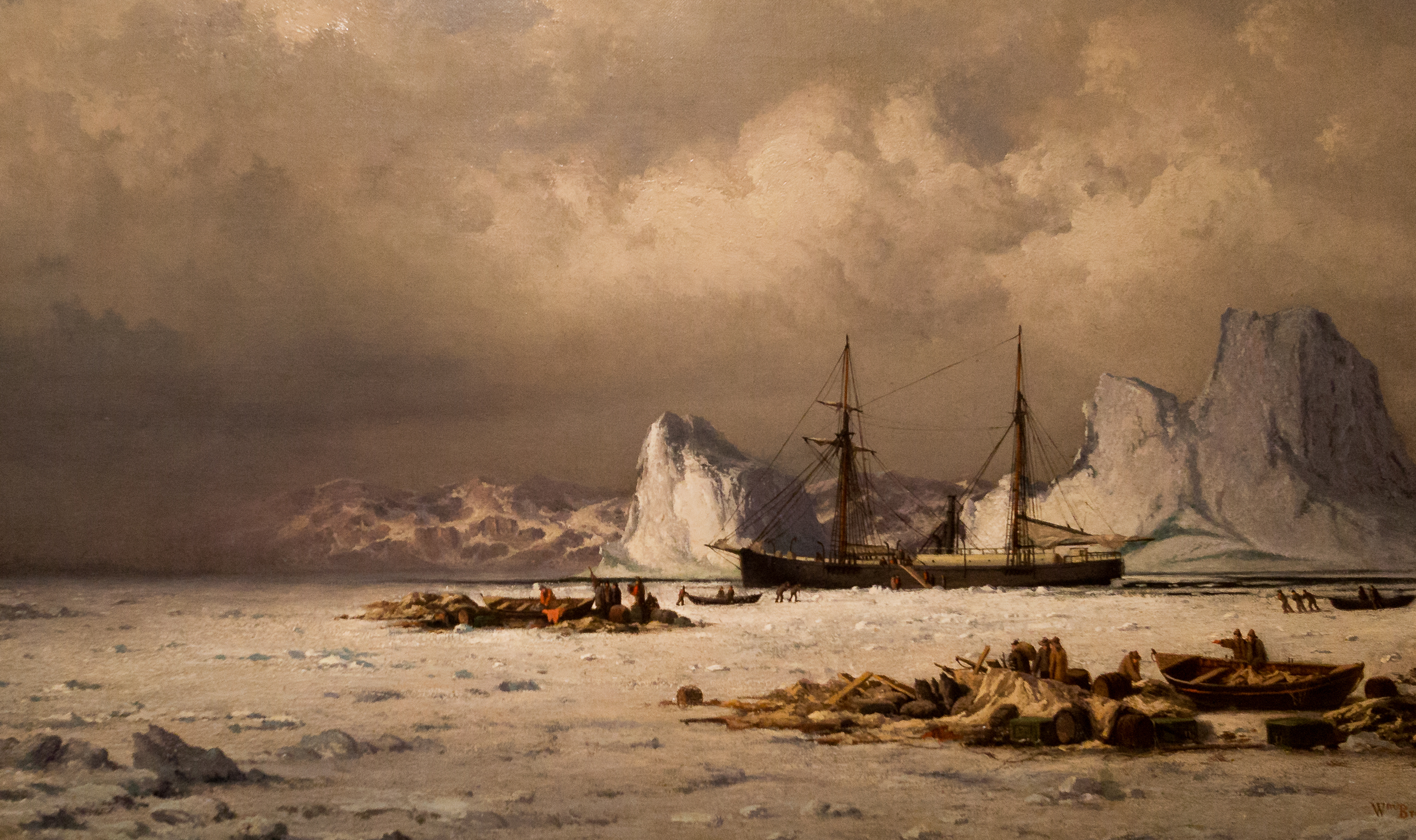 USS Polaris.